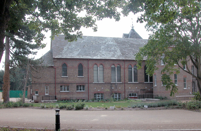 Normansfield Theatre. In the grounds of the Normansfield hospital site, the theatre has a Grade 2 listed building status and is the care of the Langdon Centre Trust.